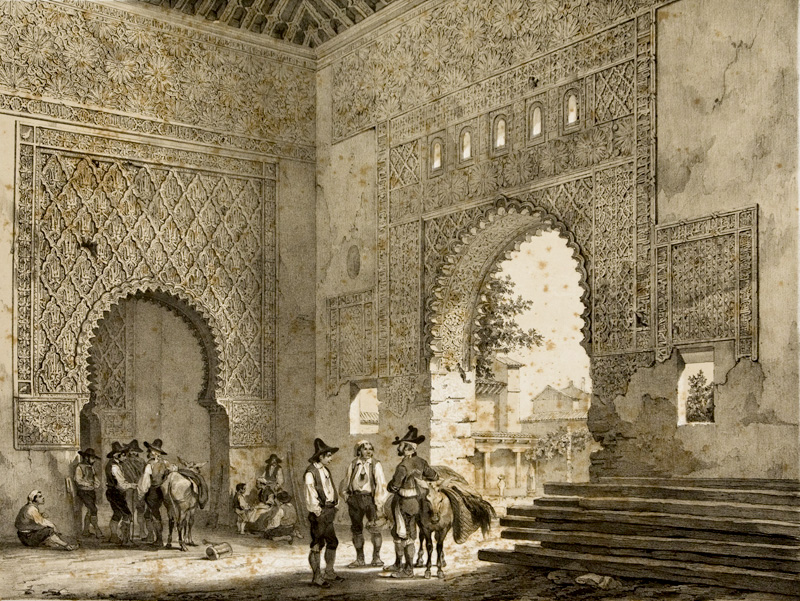 Taller del Moro in Toledo (in Spain), in España artística y monumental.